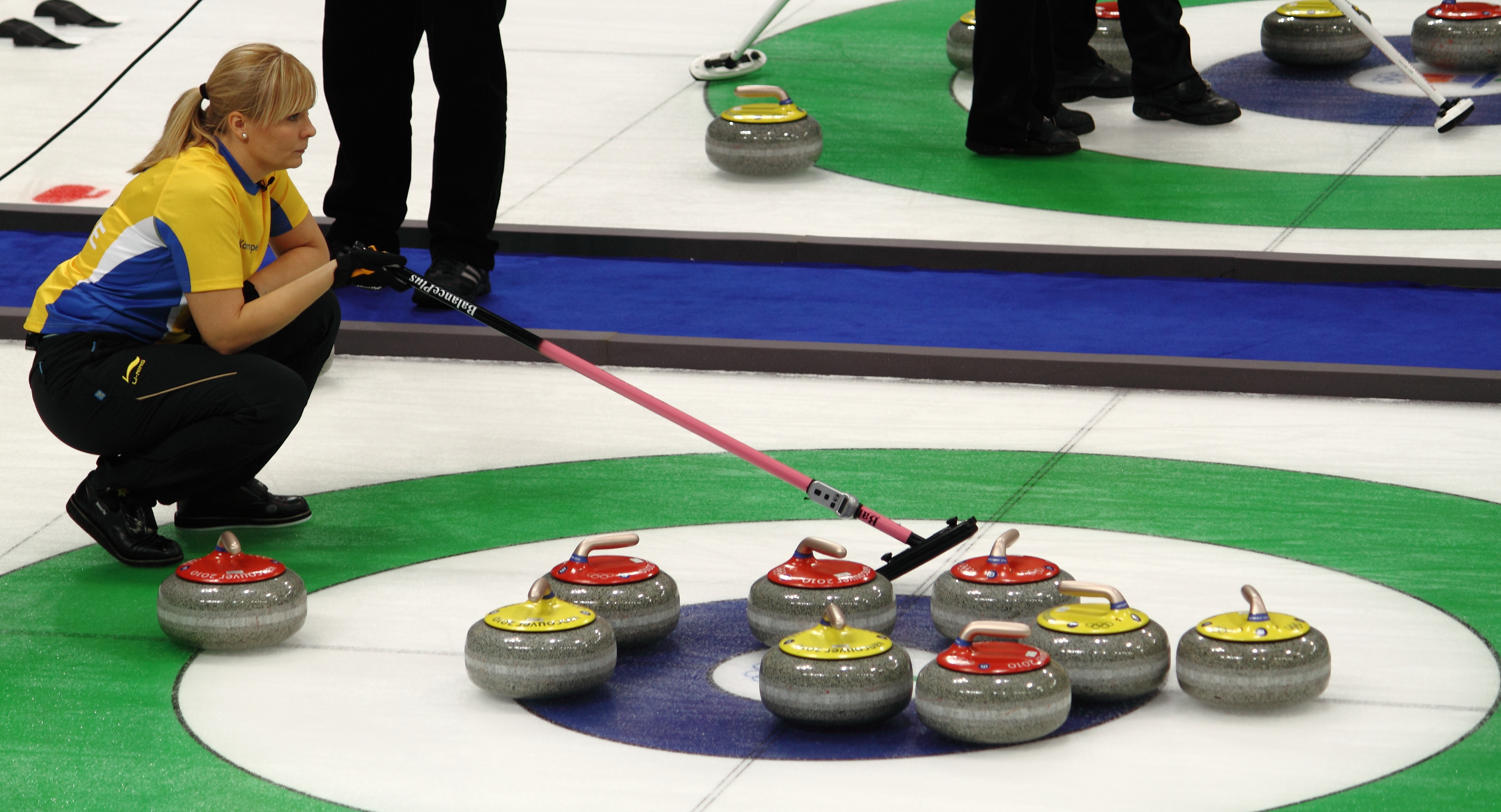 Eva Lund at the 2010 Winter Olympics in Vancouver. This photograph was taken during the 5th end in the Round Robin game between Denmark and Sweden.